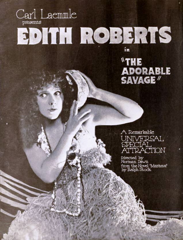 Advertisement for the American drama film The Adorable Savage (1920) with Edith Roberts, on page 2 (inside front cover) of the August 7, 1920 Exhibitors Herald.